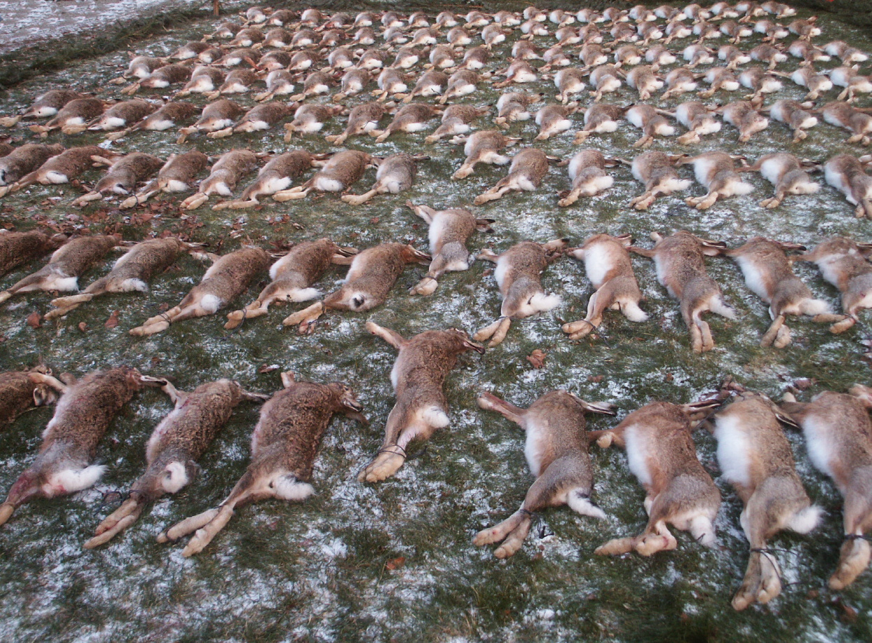 Kill of a driven hunt on European hare (Lepus europaeus) in Germany